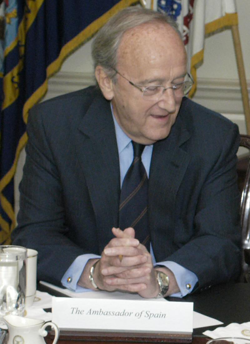 Spanish Minister of Defense Jose Bono (right), Spain's Ambassador to the U.S. Carlos Westendorp (left) and staff meet with Secretary of Defense Donald H. Rumsfeld (foreground right) on May 3, 2005. Bono and Rumsfeld are meeting to discuss defense issues of mutual interest.